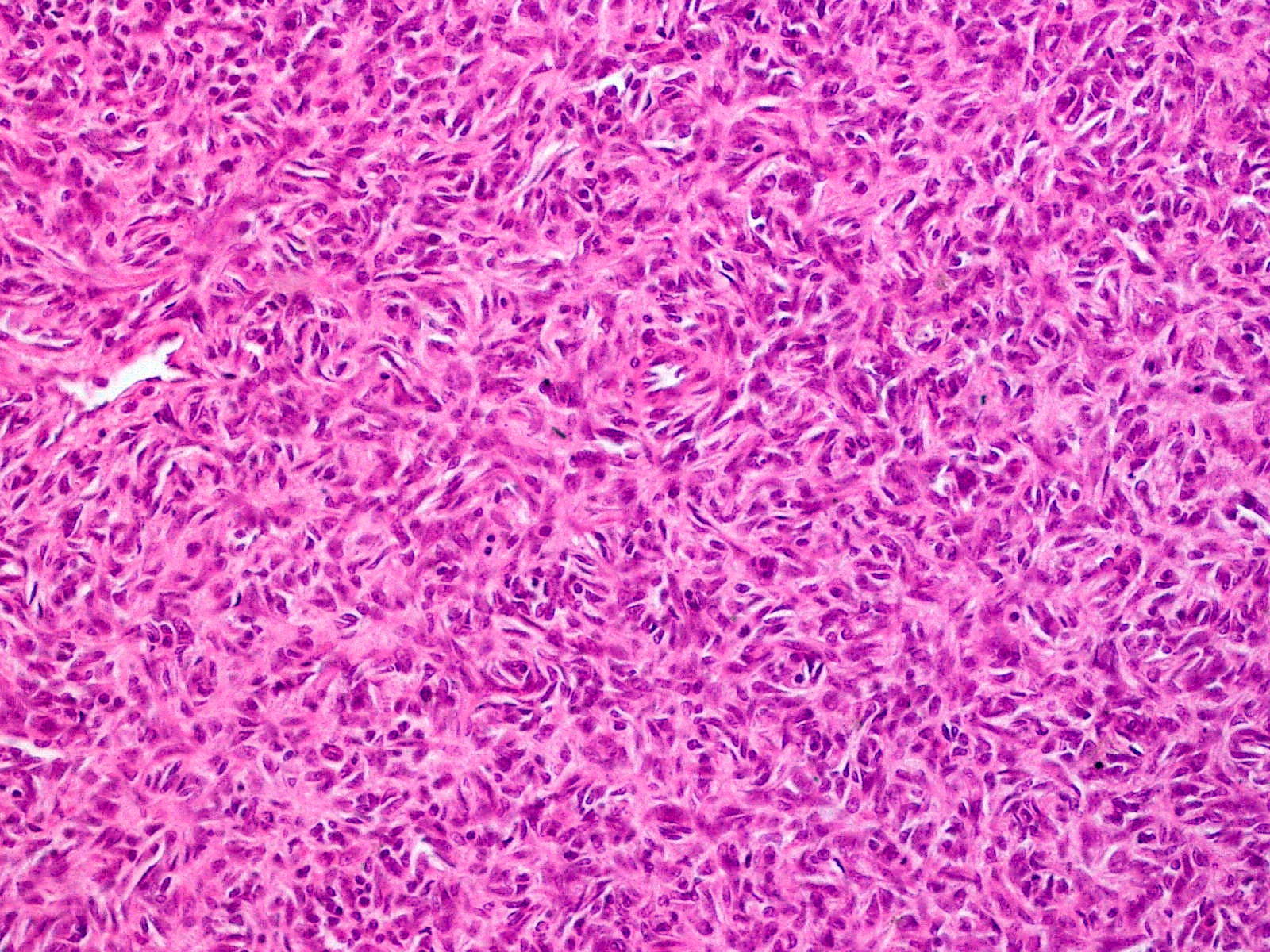 Dermatofibrosarcoma protuberans (DFSP )